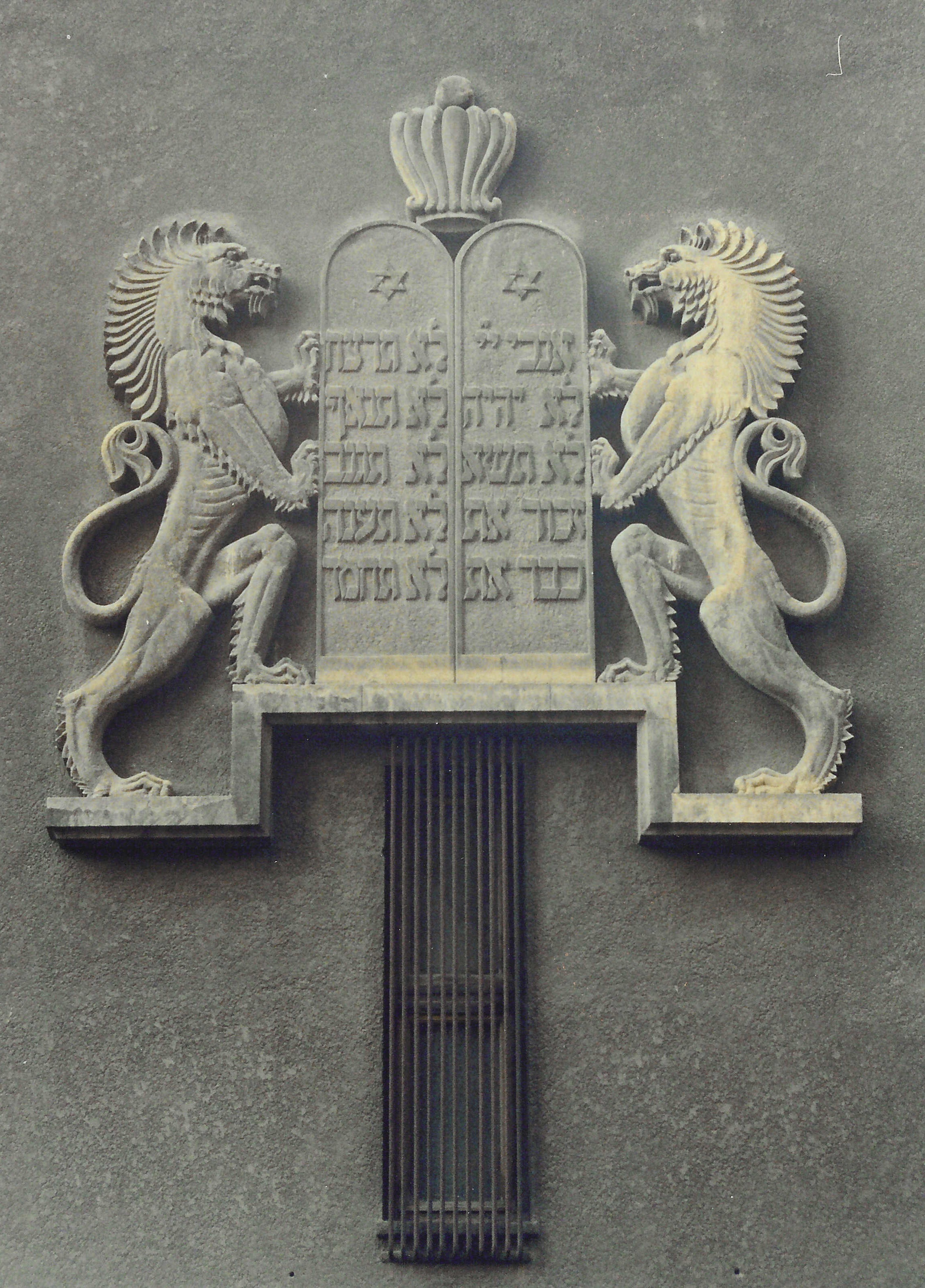 Relief of the Ten Commandments on "Ieşua Tova" ("Yeshua Tova") Synagogue near Piaţa Amzei, Bucharest, Romania, the oldest surviving synagogue in Bucharest according to Dpotop. Further information, copied from Wikipedia talk:Romanian Wikipedians' notice board: According to this source, the Iesua Tova Synagogue was built in 1827, and is located on Take Ionescu Street. (The 4 other synagogues listed there are all newer.) According to this source, the actual spelling is "Ieşua Tova", which makes more sense to me; an alternate name is "Sinagoga Podul Mogoşoaiei". Also, the address is listed as 9, Take Ionescu Street. Turgidson 02:47, 25 June 2007 (UTC) Here is more on the history of the "Yeshua Tova" Synagogue, together with a pic confirming 100% Dpotop conjecture! Turgidson 02:58, 25 June 2007 (UTC) Further note: Podul Mogoşoaiei is the old name of Calea Victoriei. - Jmabel | talk 05:48, 25 June 2007 (UTC)